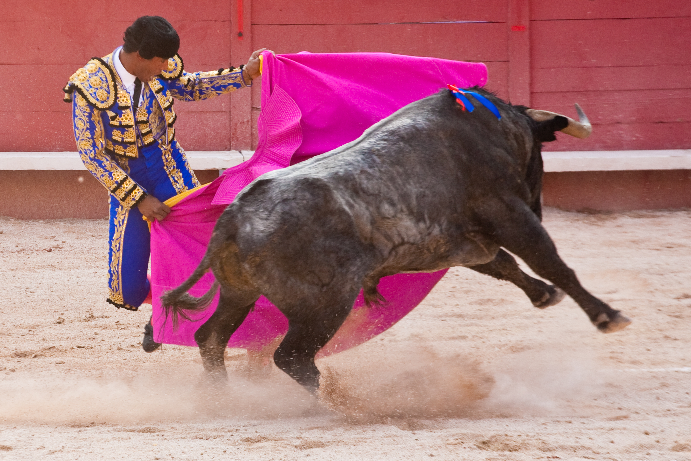 Picture of corrida in Arles, France